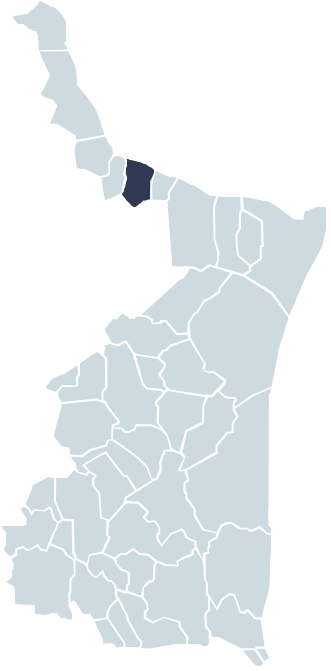 Municipality of Camargo Tamaulipas